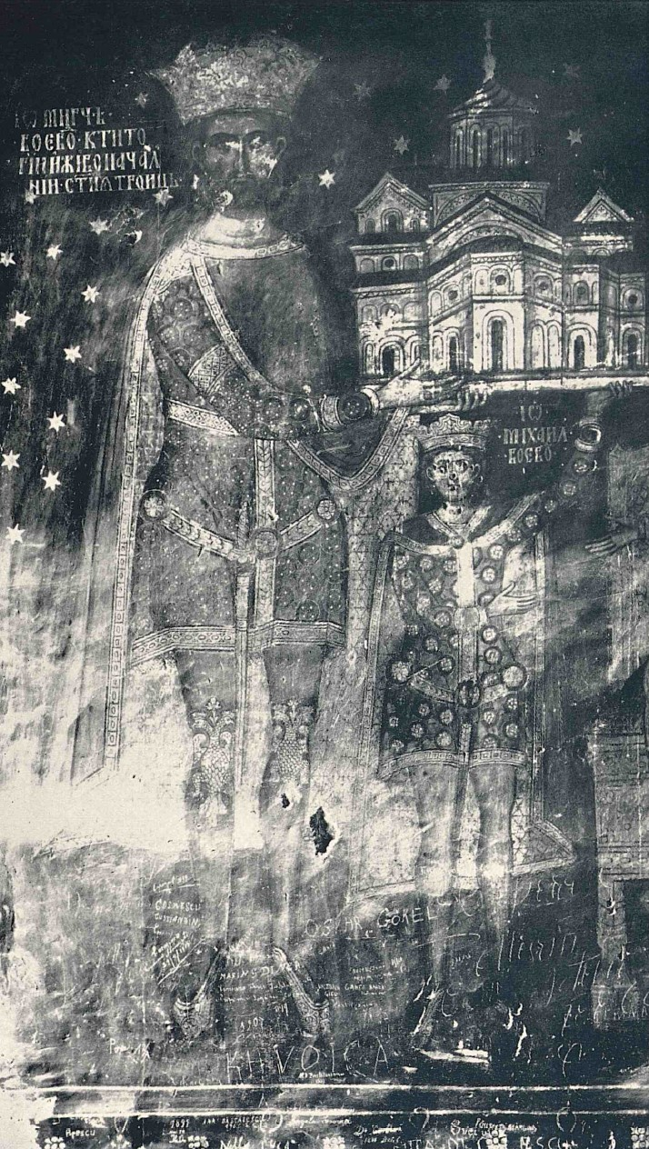 Mircea cel Bătrân and his son Mihail I at Cozia monastery, in the main church